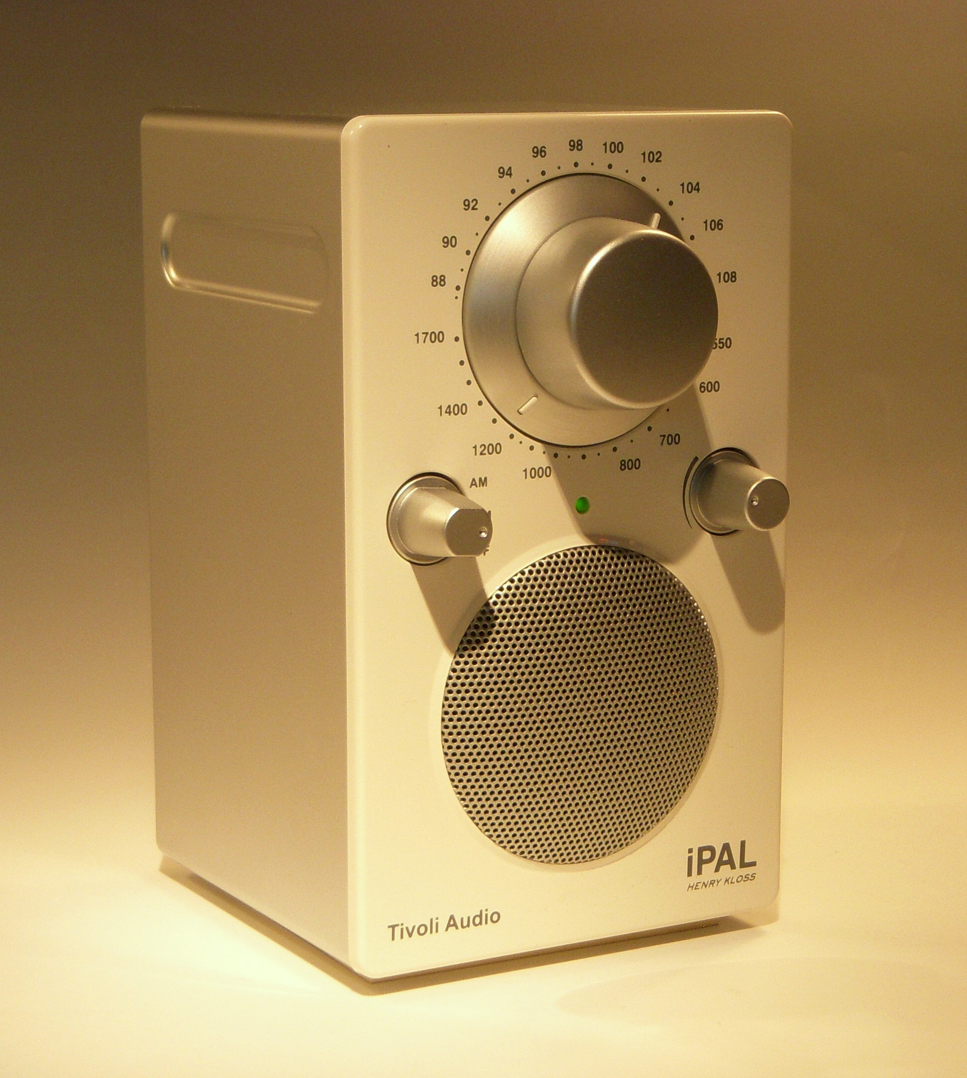 A Tivoli Audio PAL (Portable Audio Laboratory) radio